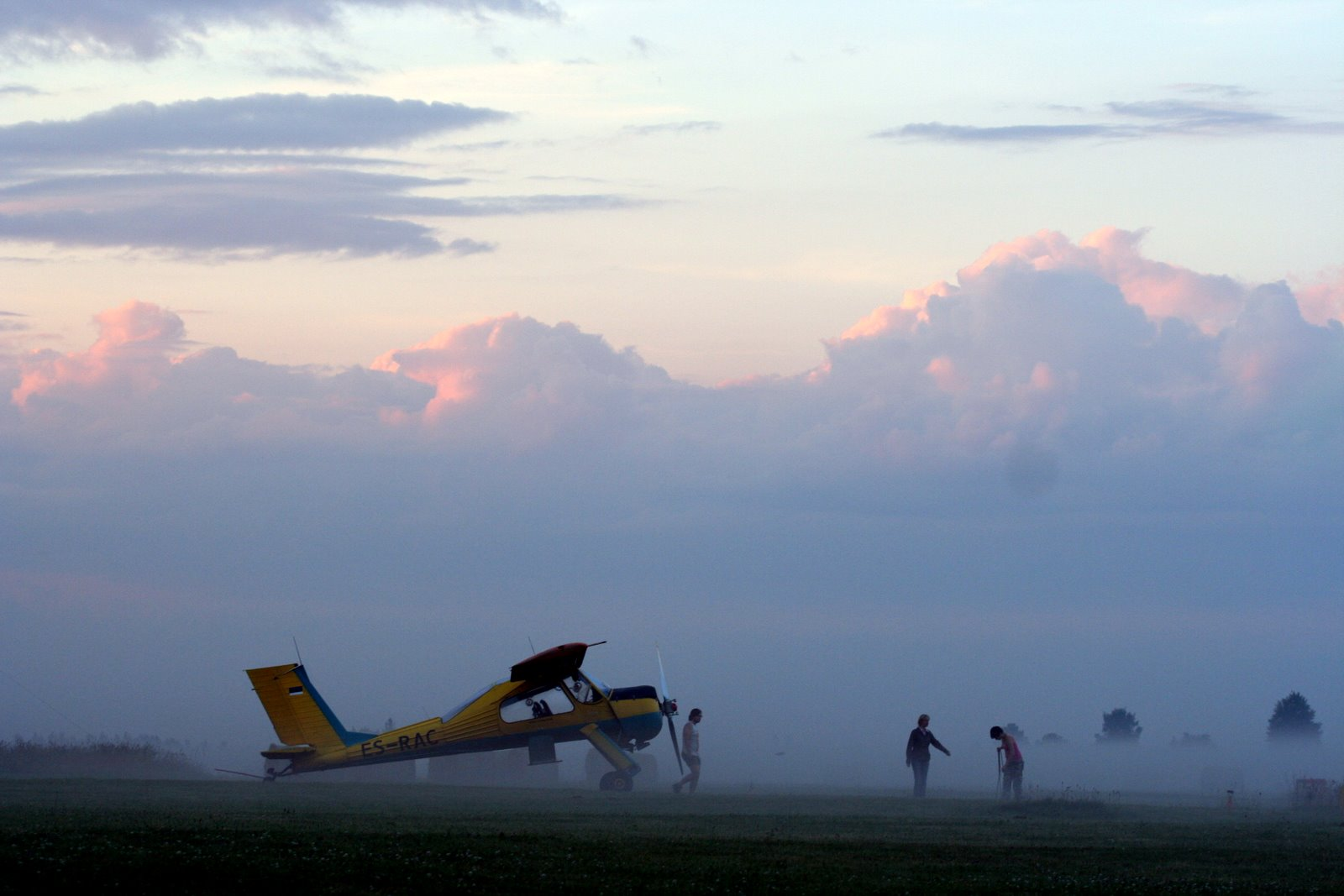 A PZL-104 Wilga tow plane in a Foggy evening at Ridali Airfield